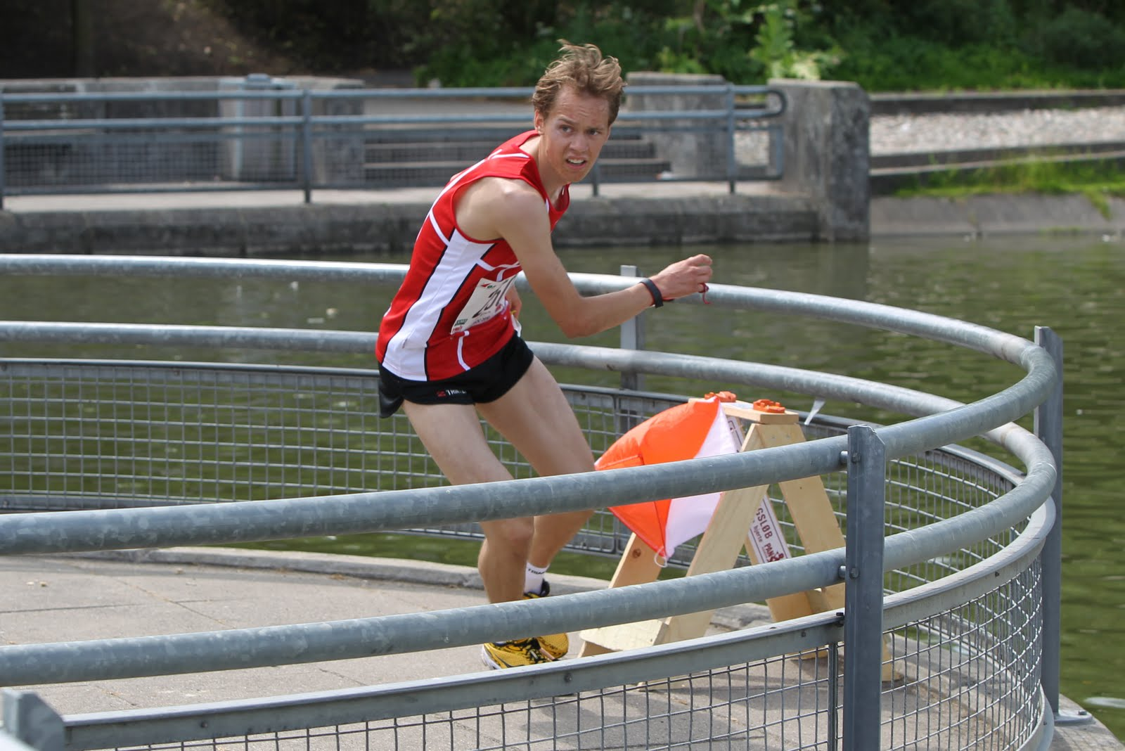 Rasmus Thrane Hansen (DEN) at JWOC 2010